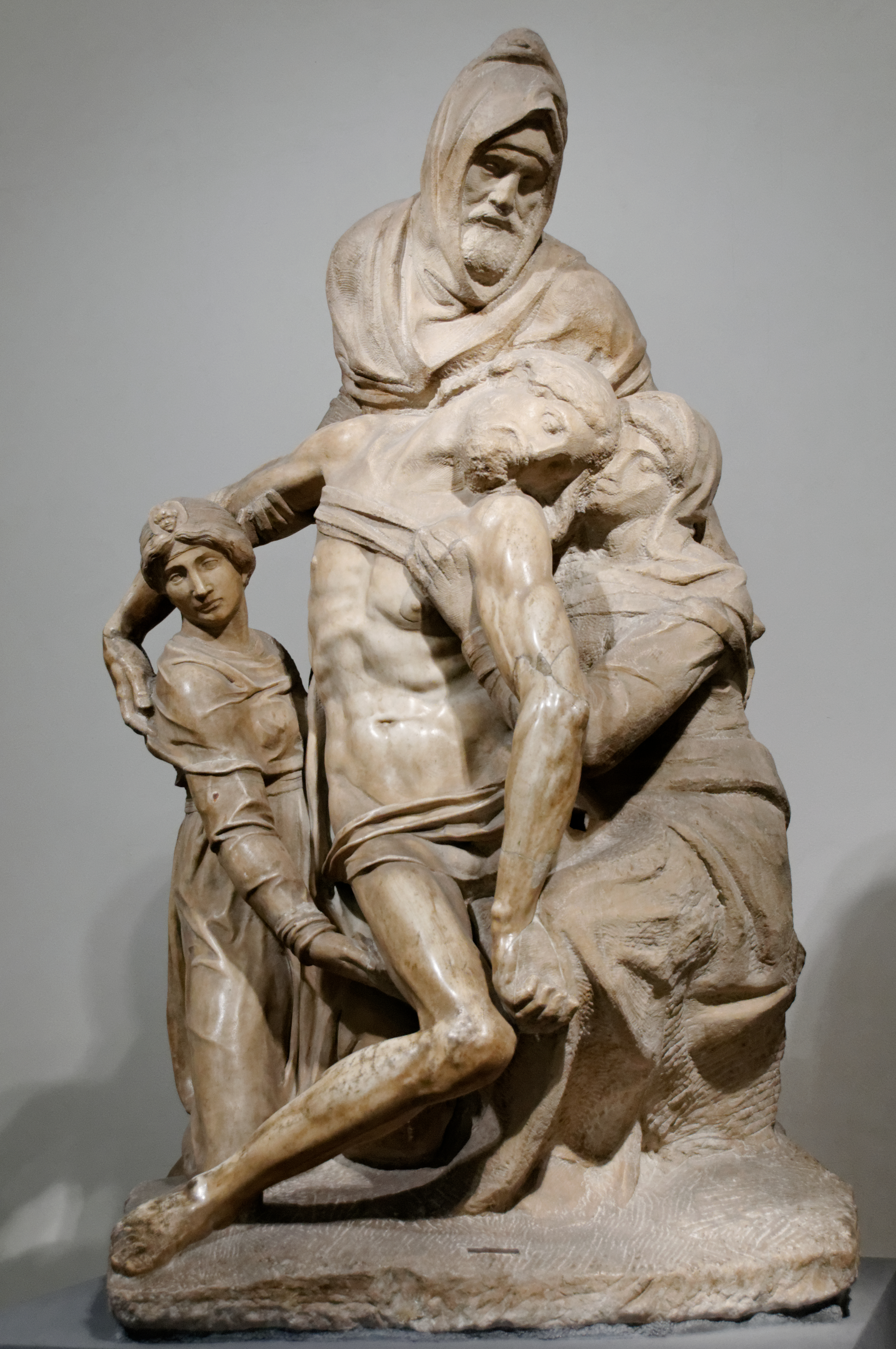 So-called Pietà Bandini, left unfinished and partially destroyed by Michelangelo, restored by Tiberio Calgagni.